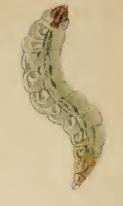 Stainton’s Natural History of the Tineina (1855–1873): Ectoedemia atricollis